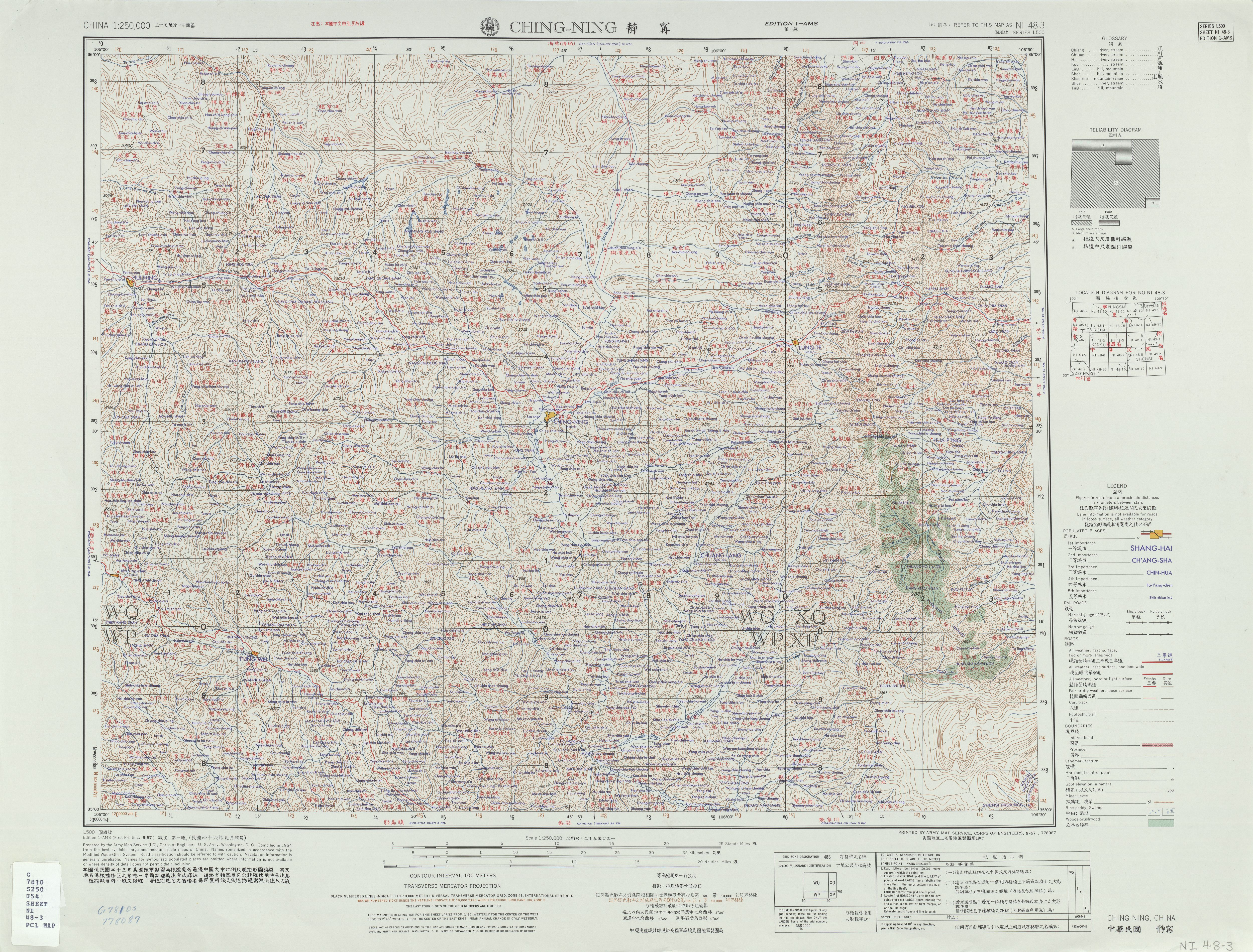 China AMS Topographic Maps